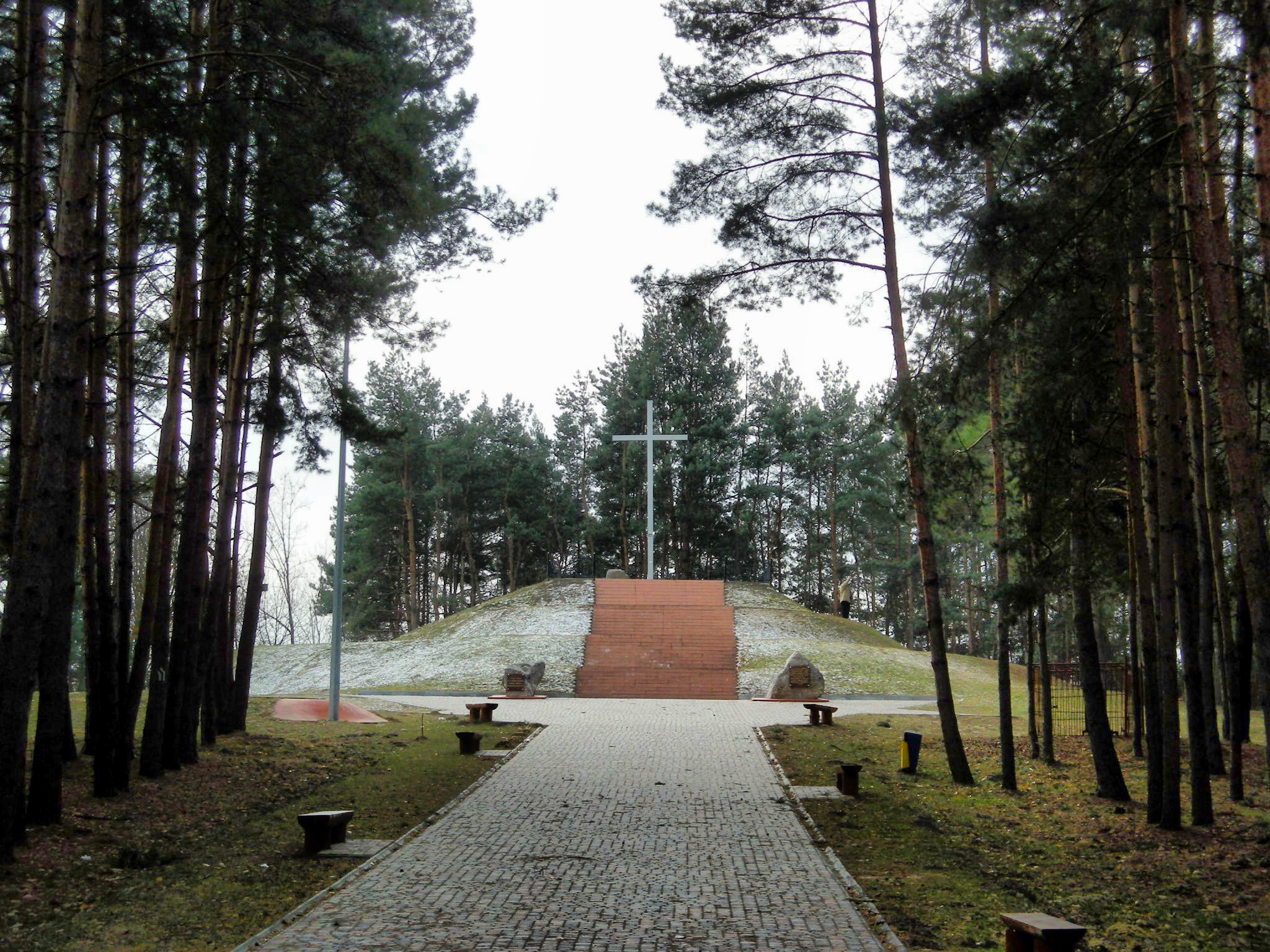 Kościuszko Mound in Połaniec, Poland.